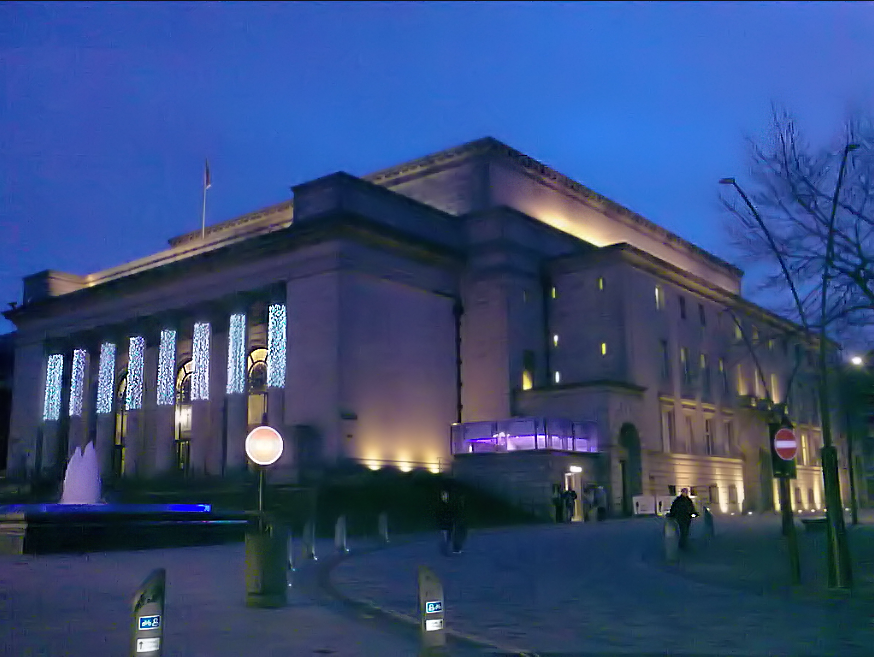 Sheffield City Hall, Sheffield, UK.